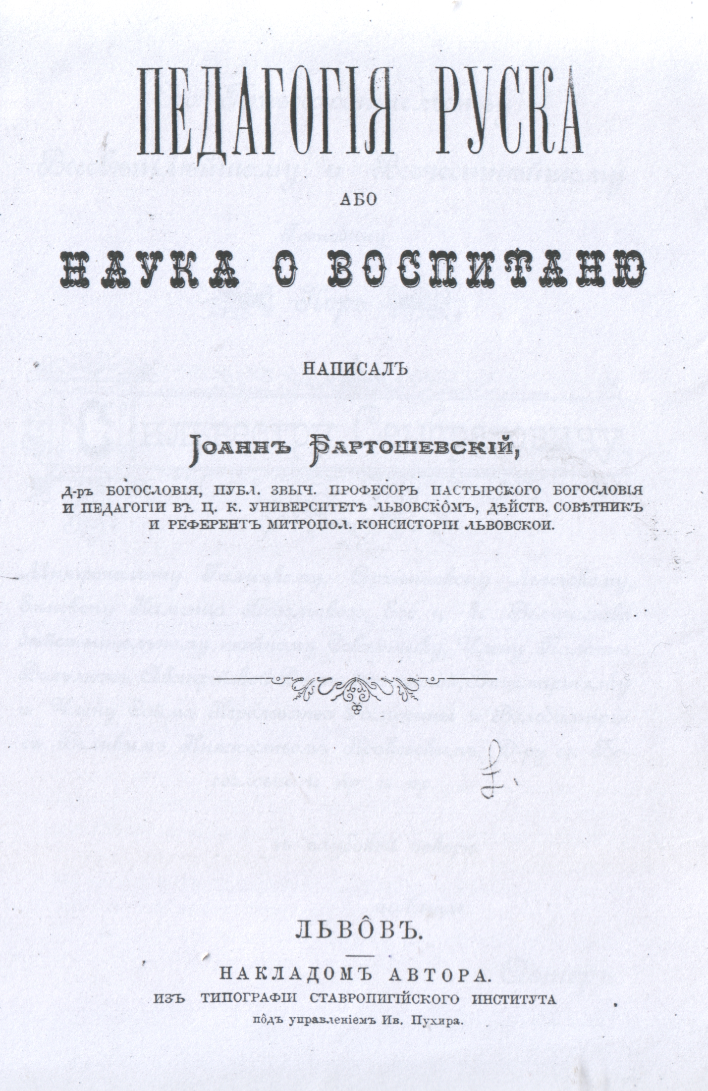 Pedagogics of Bartoshevsky